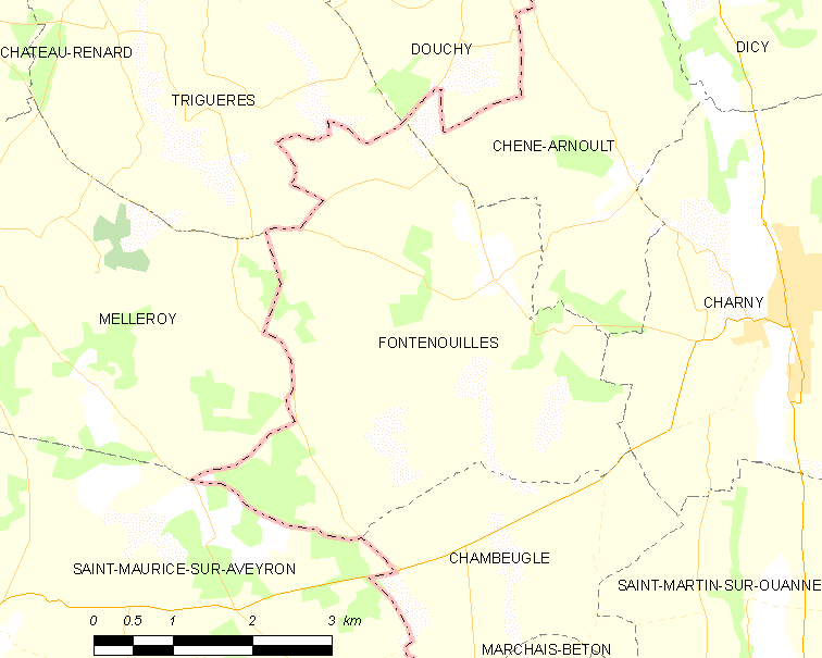 Map of French municipality Fontenouilles